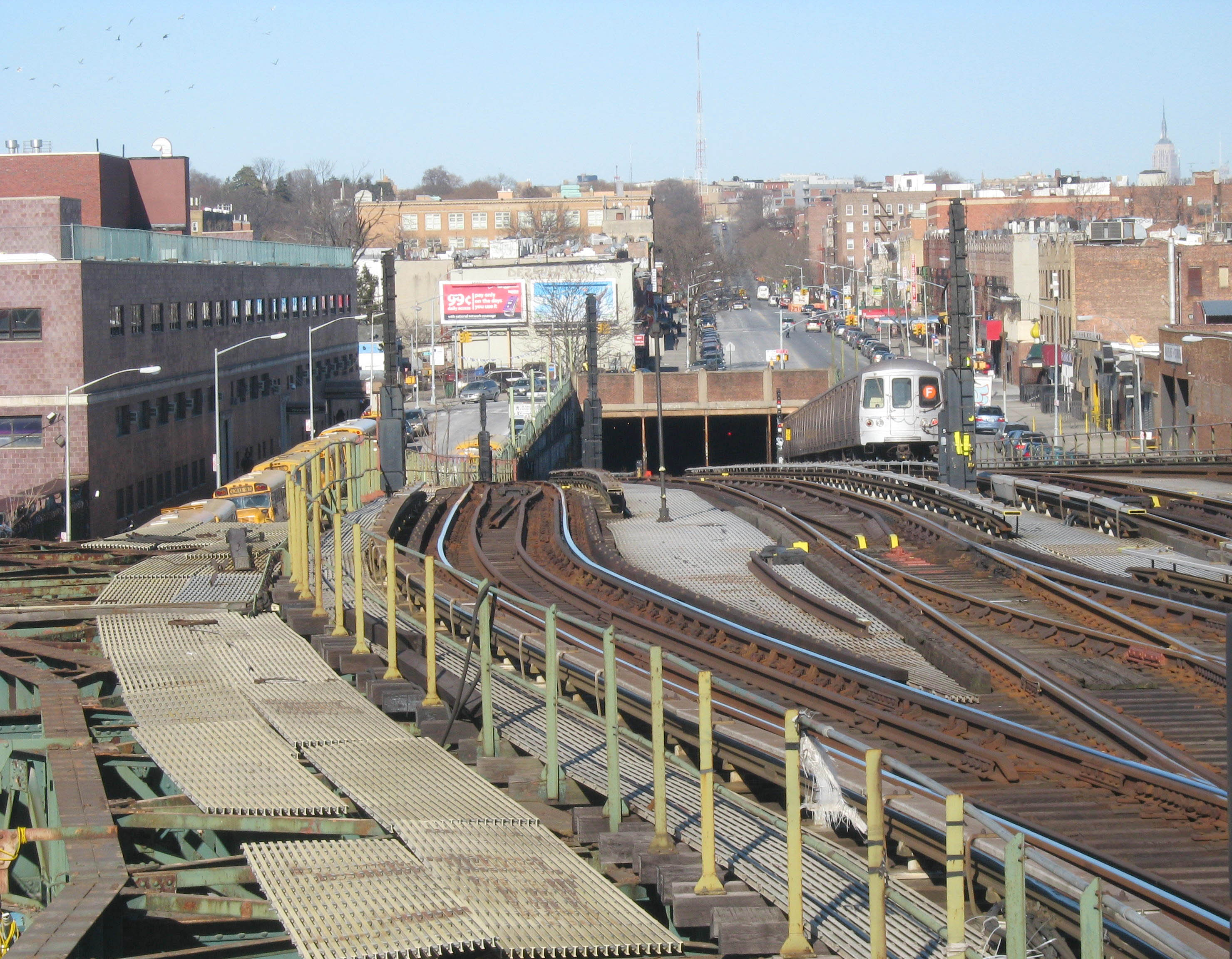 Looking north from the southbound platform of Ditmas station as a northbound train descends towards Church Avenue on a sunny midday in midwinter.